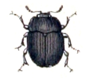 Phalacrus corruscus, from Calwer's Käferbuch, Table 13, Picture 20. Taxonomy was updated to 2008, using mostly the sites Fauna Europaea and BioLib. Please contact Sarefo if the determination is wrong!